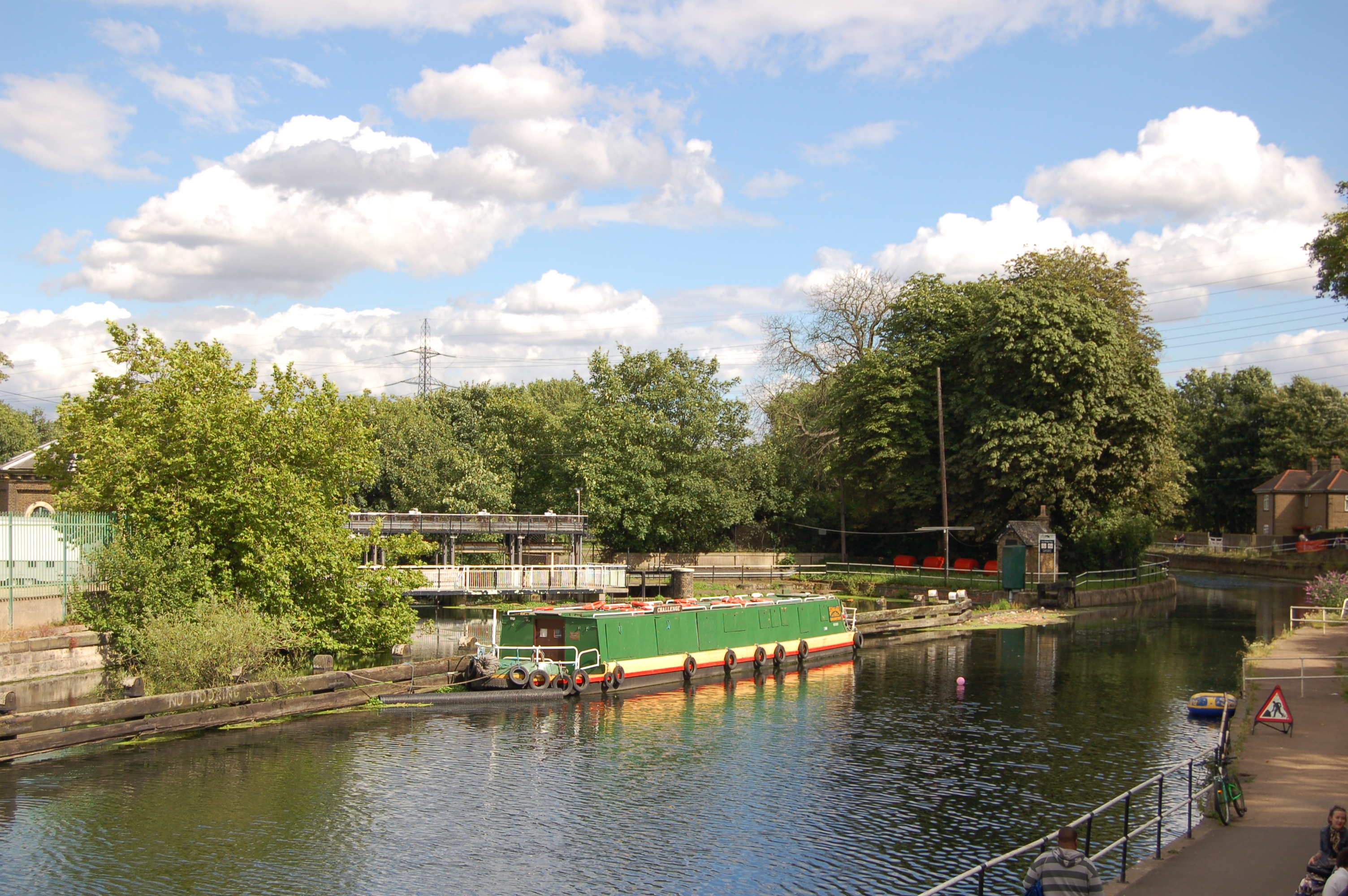 Middlesex Filter Beds Weir Use freely, please attribute. K B Thompson